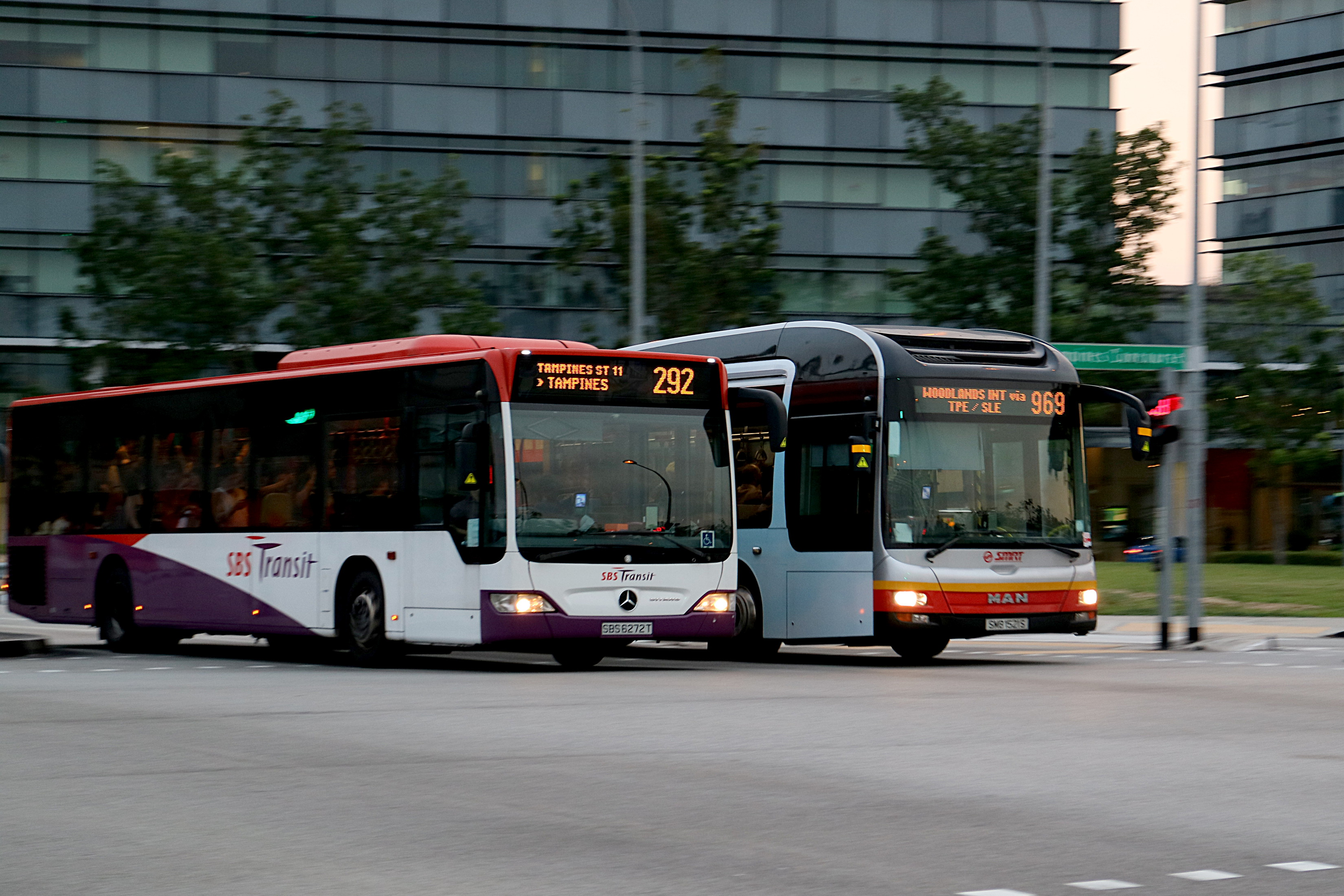 The buses picture are travelling along Tampines Central 1, having exited Tampines Bus Interchange.